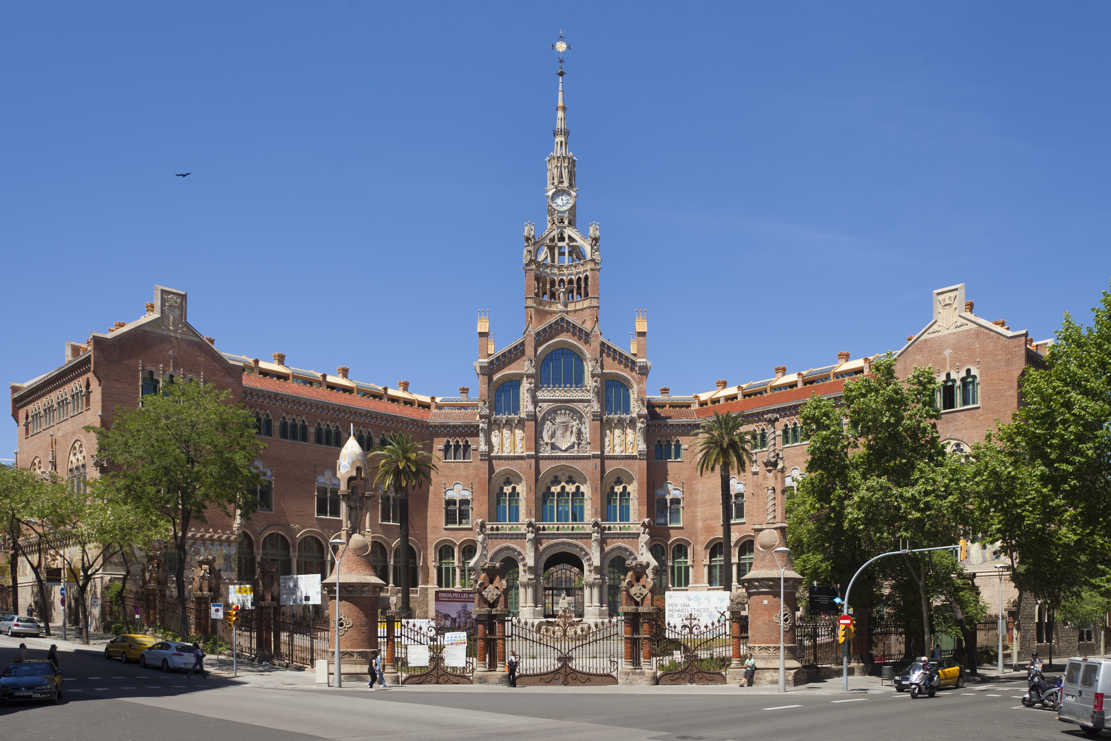 Historical Routes at the Horta-Guinardó District Administration in Barcelona This image was provided to Wikimedia Commons by the Horta-Guinardó District Administration in Barcelona as part of an ongoing cooperative project with Amical Viquipèdia. English | +/−